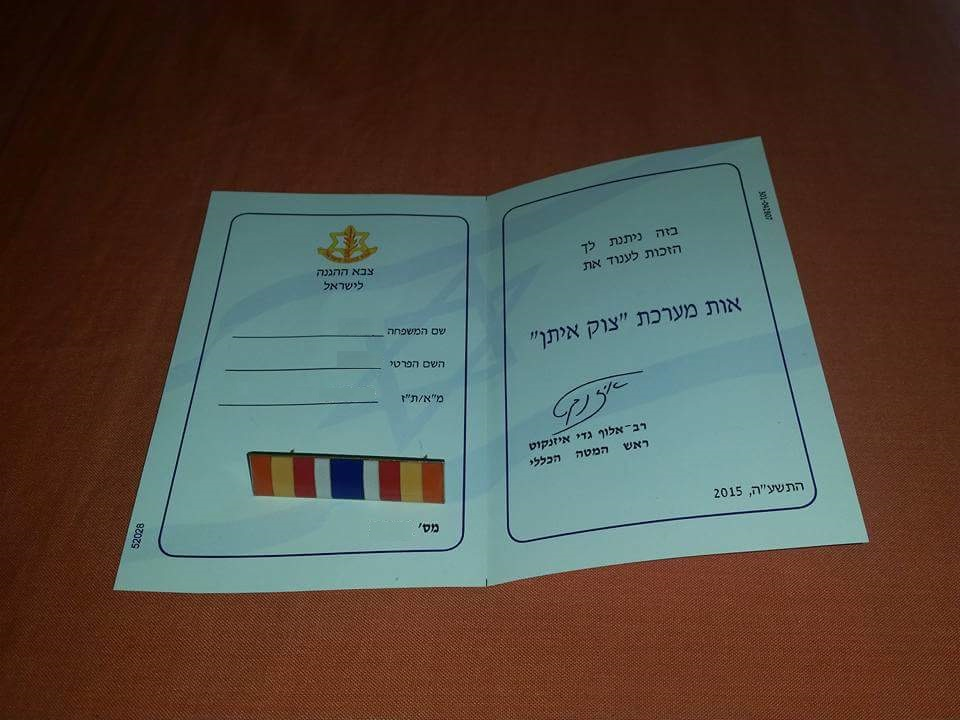 Certificate attached to the Ribbon bar of Operation Protective Edge